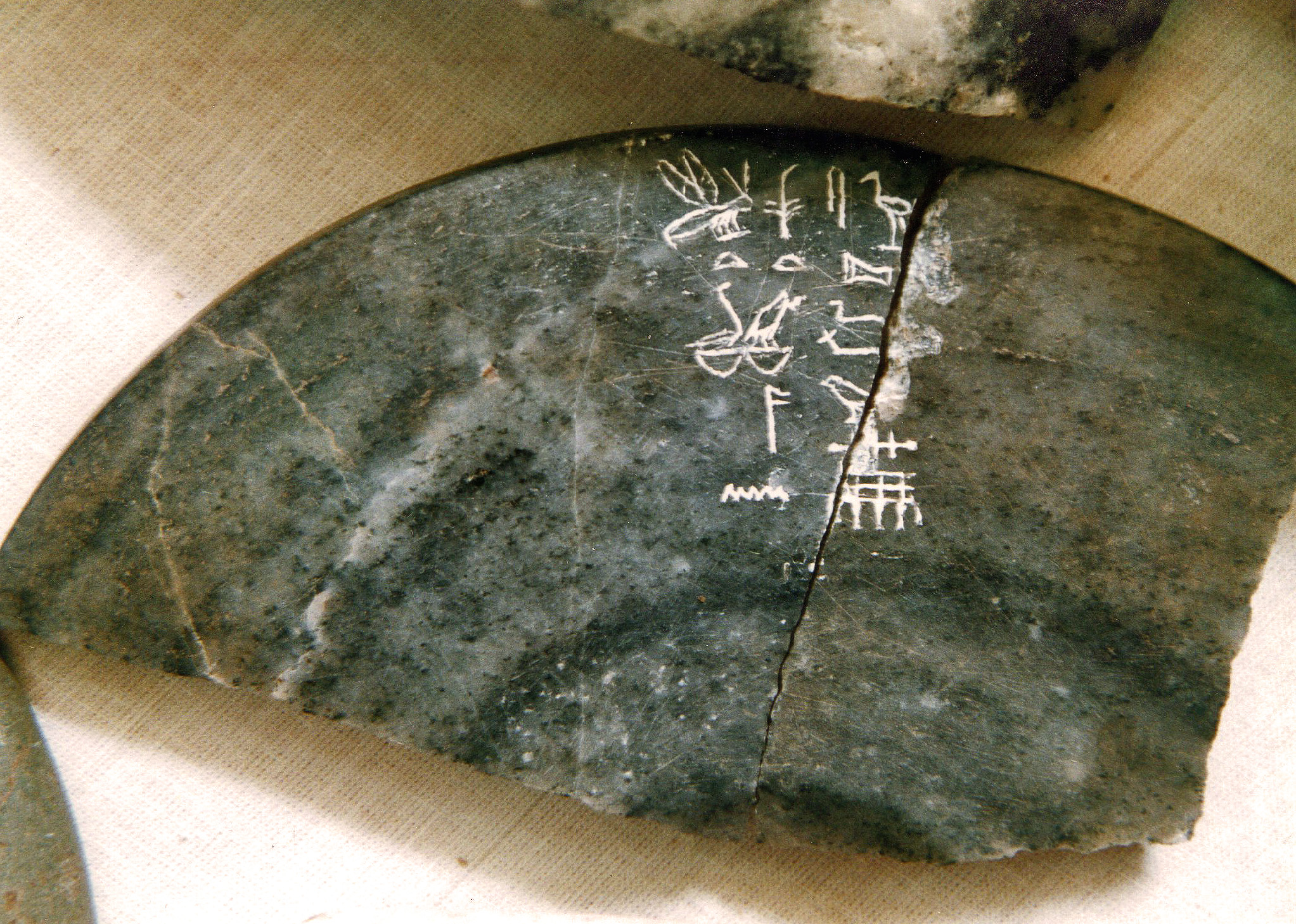 Fragment of a vase of diorite which mentions pharaoh Nynetjer and the goddess of the Delta, Bastet. Provenance: Saqqara, Djoser's Step Pyramid. Found in the rubble. Now in the Egyptian Museum, JE 55265 The inscription on the left gives the name of Nynetjer. The second inscription, on the right, provides a brief text that has been interpreted as the title of an officer: "The head of the hnt and provisions of the goddess Wb'st. T (Bastet)" bibliography: Gunn, ASAE., XXVIII, p. 159. II.4 Pl